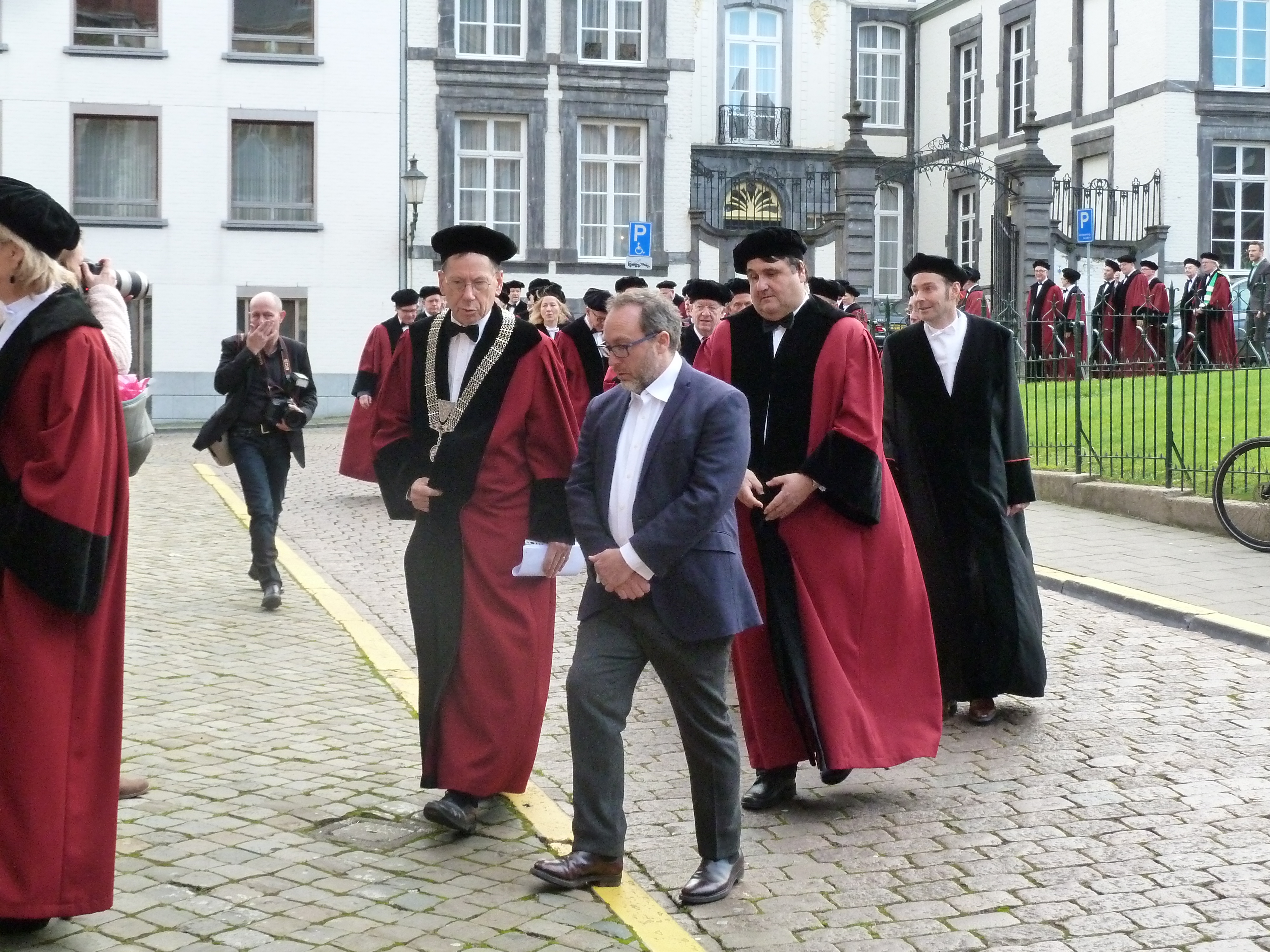 39th Dies Natalis of Maastricht University